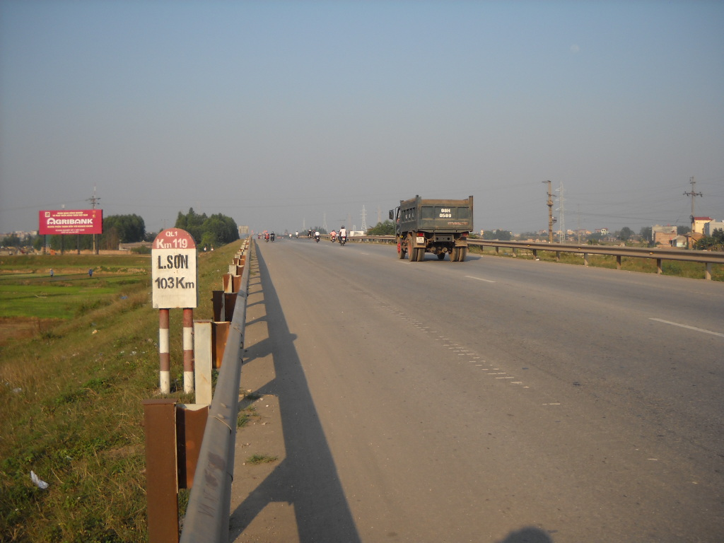 Bắc Giang Province, Vietnam